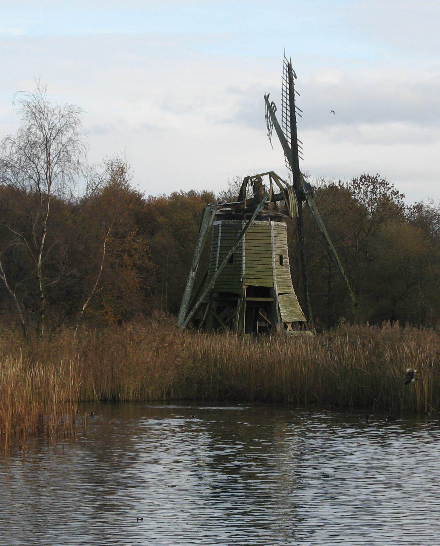 Drainage windmill De Marmearmin